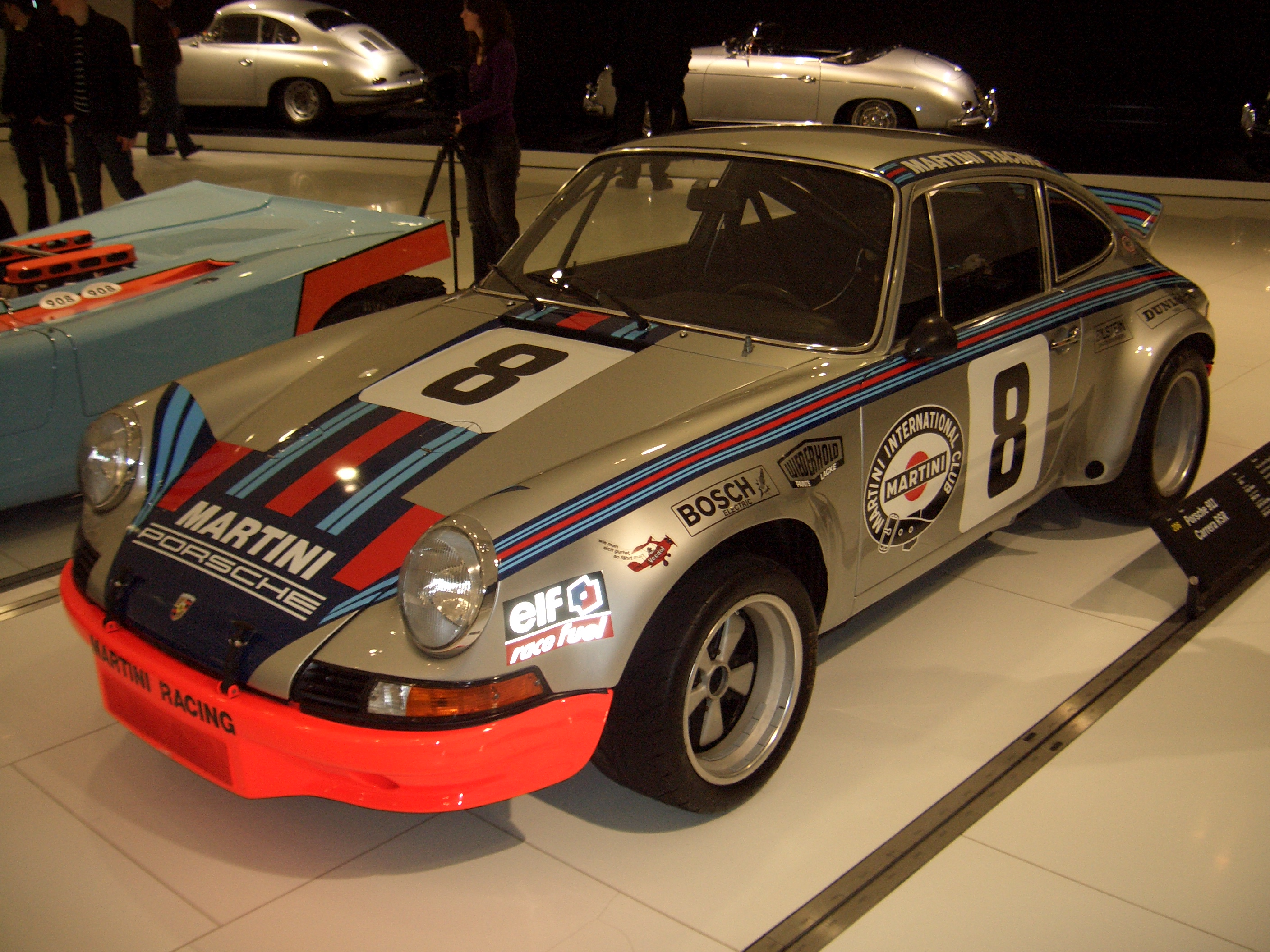 see filename for despcription - seen at Porsche Museum Native namePorsche-MuseumLocationStuttgartCoordinates48° 50′ 07″ N, 9° 09′ 06″ E Established1976 (old museum) 2009 (new museum)Web page control : Q328623 VIAF: 138511768 GND: 2087859-X SUDOC: 155641123 NKC: ko2015876799 institution QS:P195,Q328623